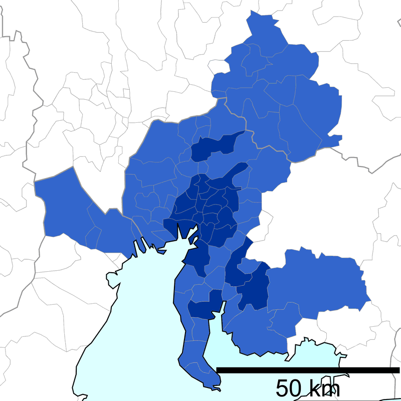 Urban Employment Area of Nagoya in 2015